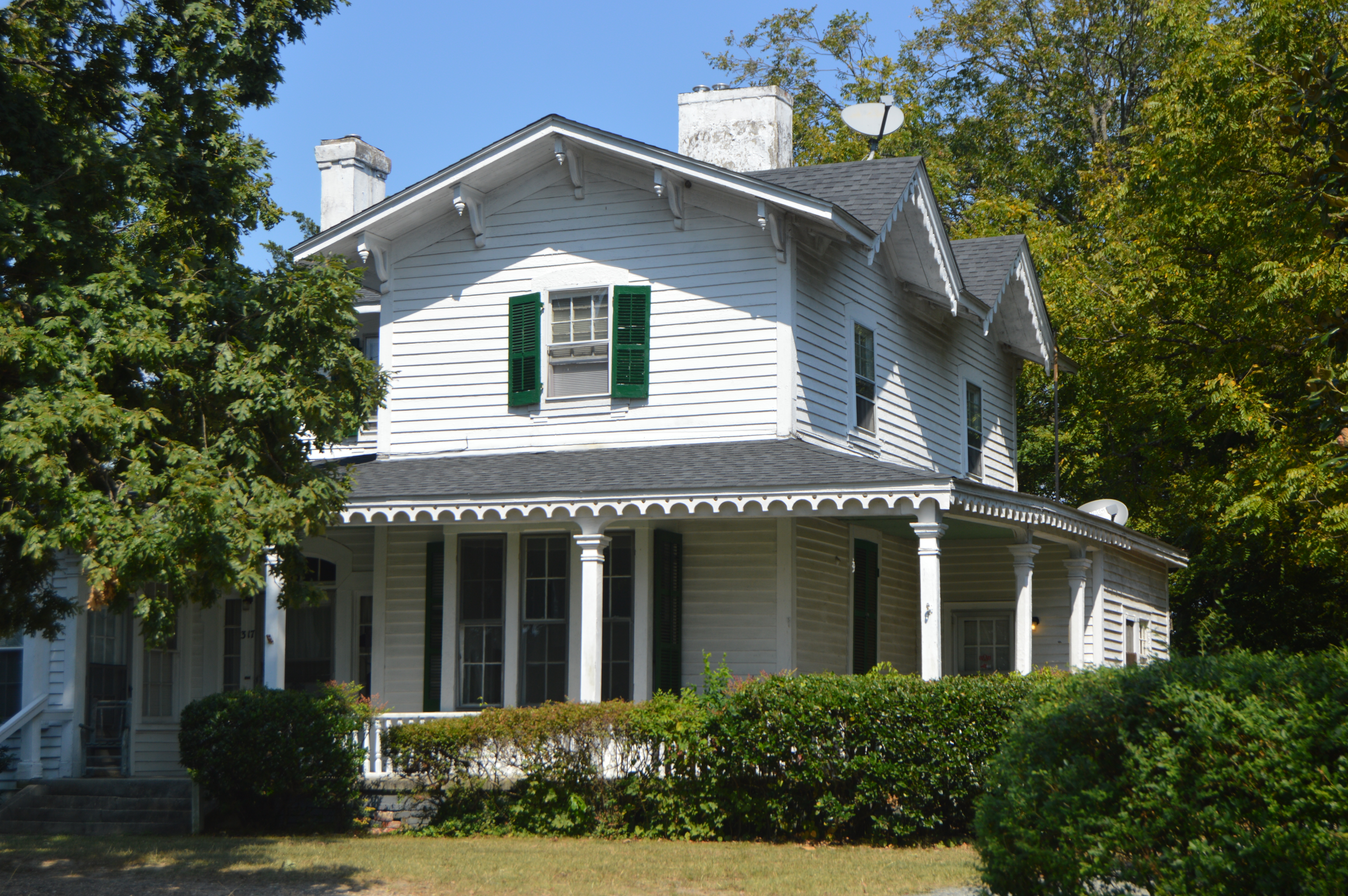 Front of the Stagg House, located at 317 N. Park Avenue in Burlington, North Carolina, United States. Built in 1857, it is listed on the National Register of Historic Places.